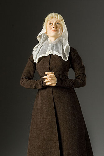 Historical Mixed Media Figure of Baroness Barbara Juliane von Krüdener produced by artist/historian George S. Stuart and photographed by Peter d'Aprix. This image, from the George S. Stuart Gallery of Historical Figures® archive ( is provided for all uses with appropriate attribution. Any derivatives must be shared in the same manner. Contributor mharrsch is webmaster for the gallery site.